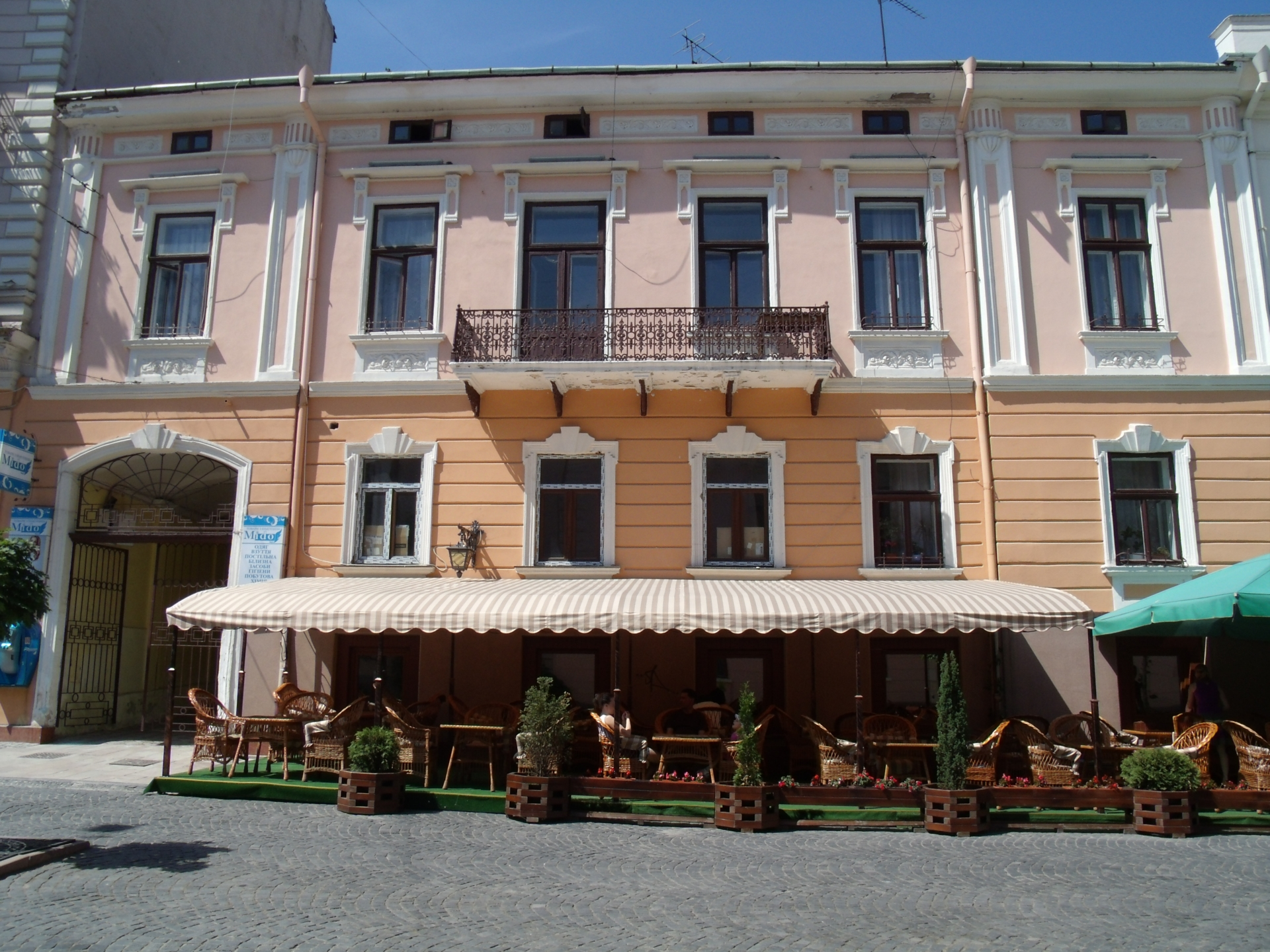 Chernivtsi, Kobylianska house 24